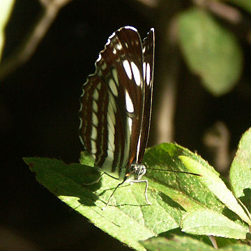 ssp. intermedia